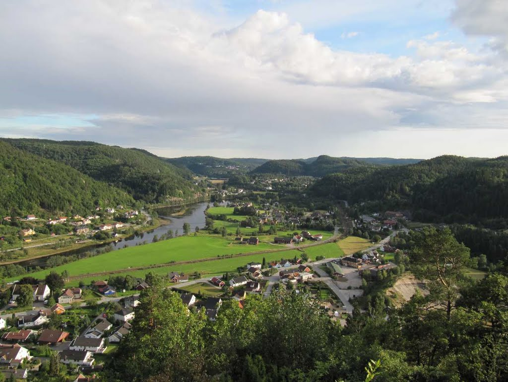 Overview of Mosby